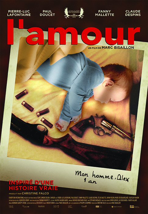 Poster of the movie With Love (Q63937152)